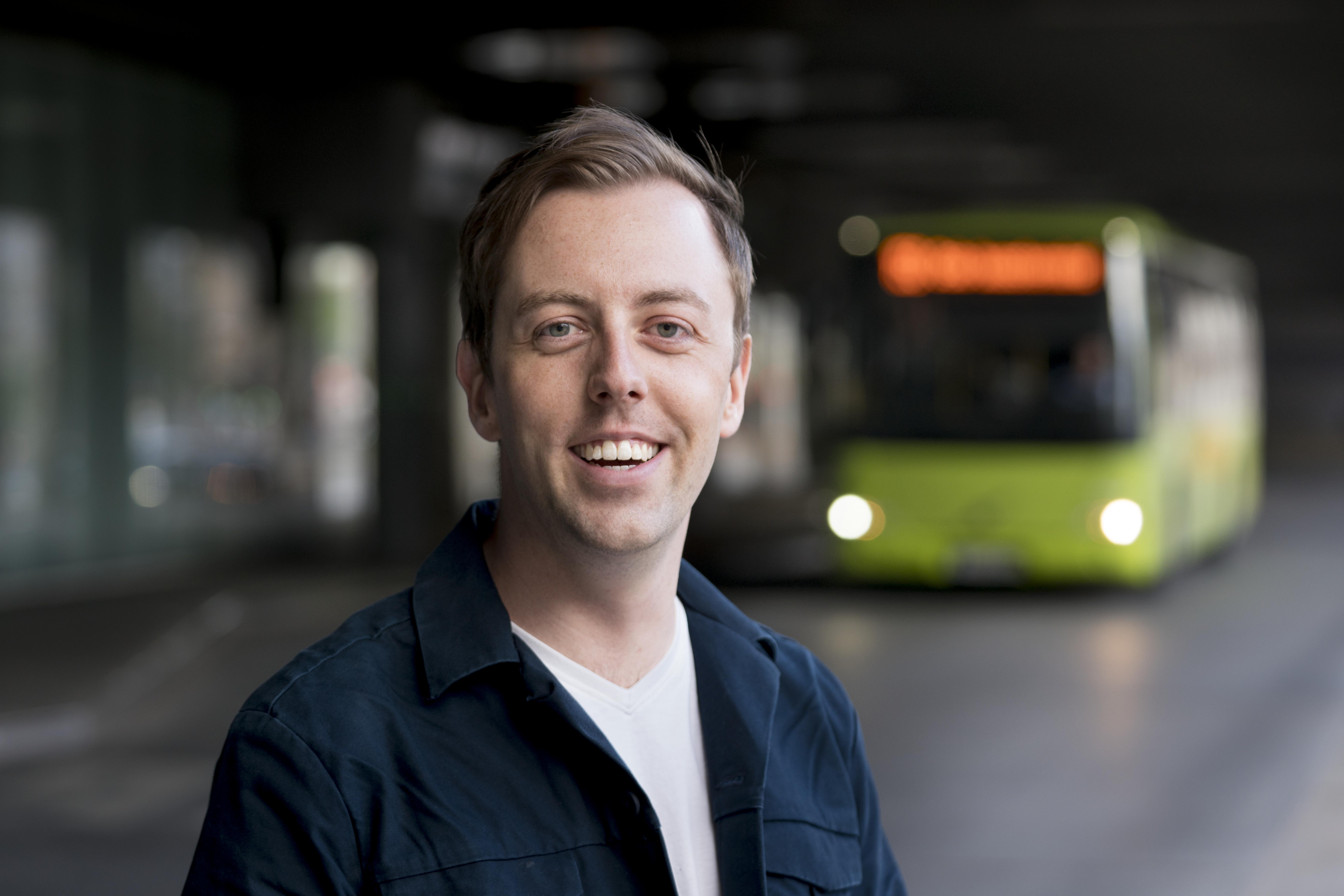 Nicholas Wilkinson, Norwegian MP Fri bruk for SV